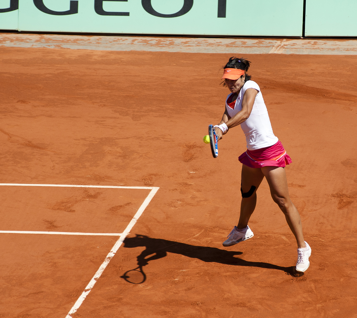 2011 French Open semi final, Li Na (pictured) vs Maria Sharapova.